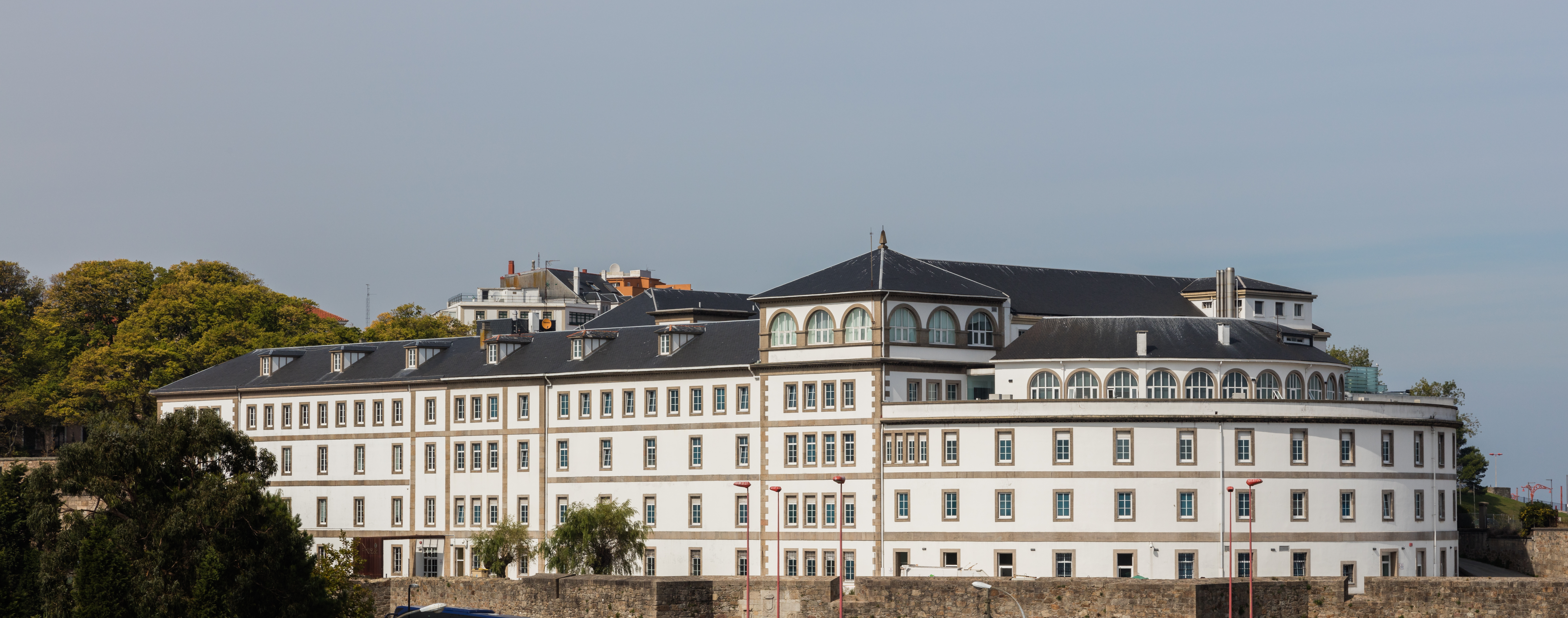 Hospital Hospital Abente y Lago, La Coruña, Spain